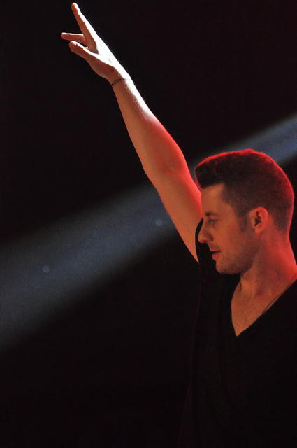 Romanian musician Adi Sina performing during one of his concerts.